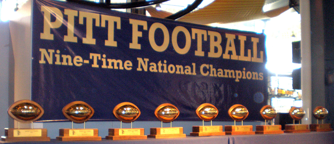 A display of the University of Pittsburgh Panther's nine football National Championship trophies at Heinz Field in 2009.